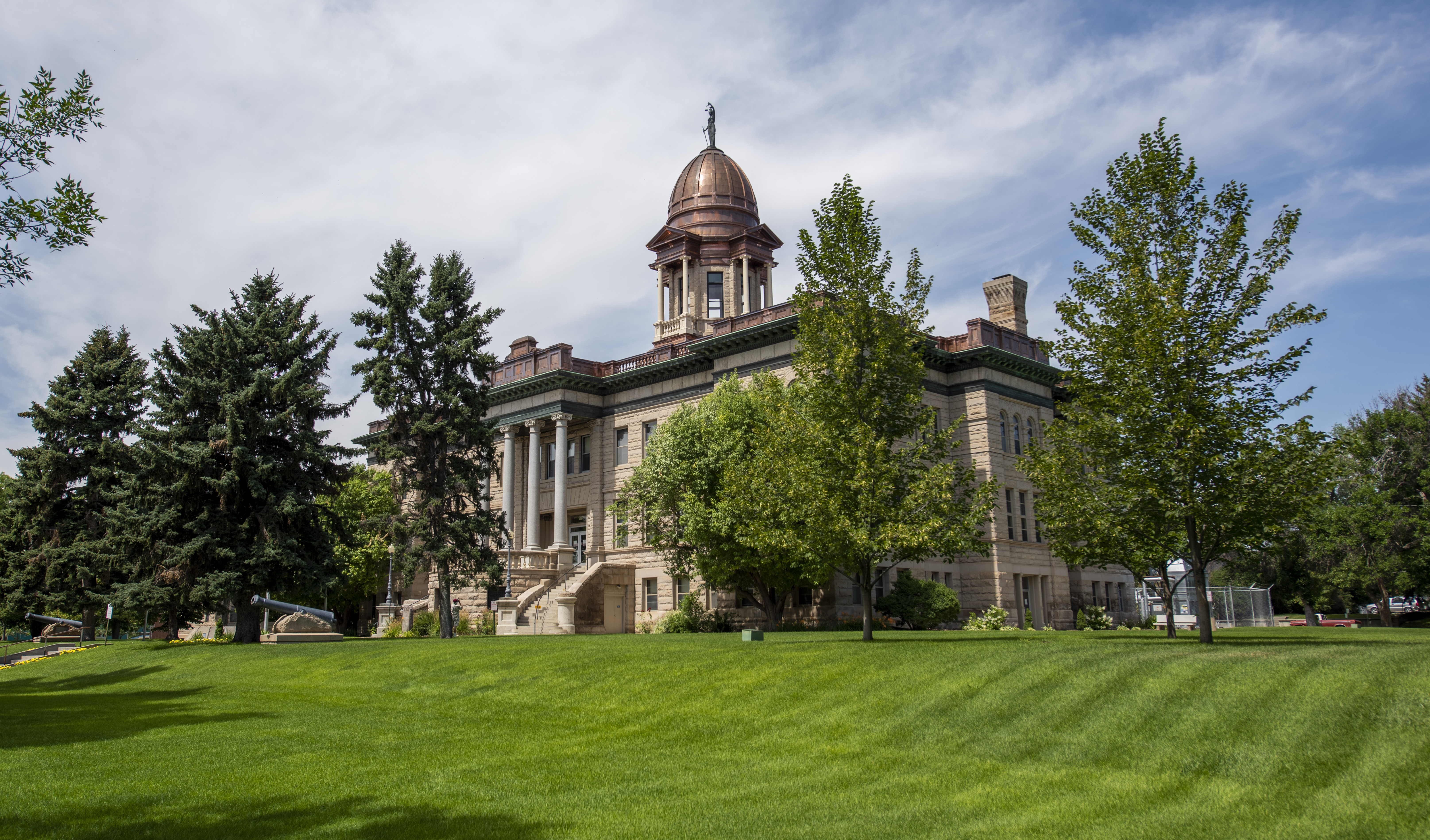 Photograph of the Cascade County Courthouse in Great Falls, Montana. Image taken in July 2020.